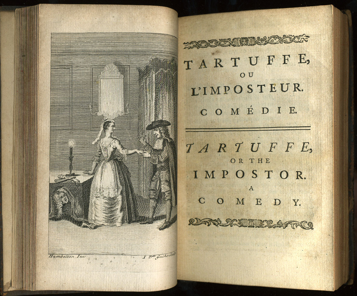 Frontispiece and titlepage of "Tartuffe or The Imposter" from a 1739 collected edition of his works in French and English, printed by John Watts.